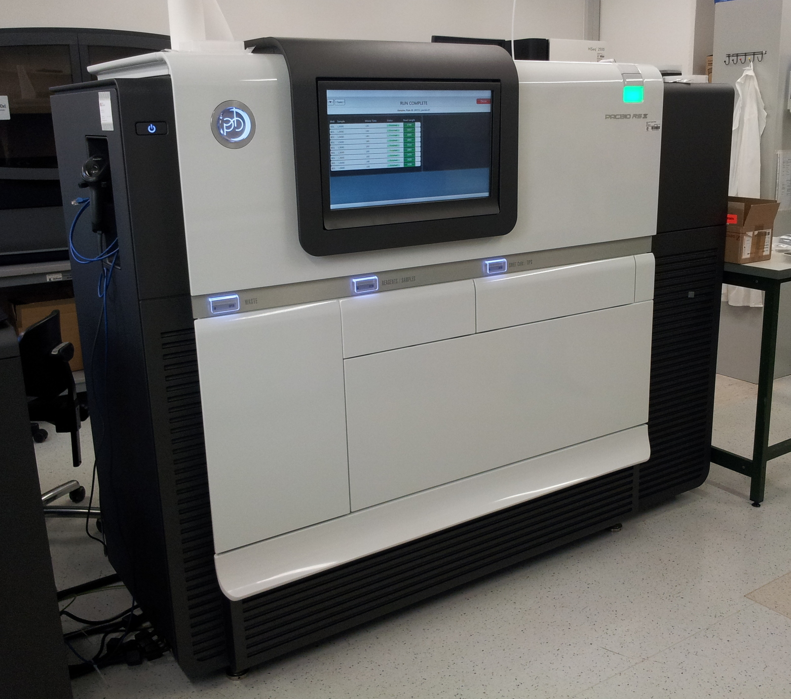 PacBio RSII - photo taken at the Max Planck Genomzentrum Cologne, Germany